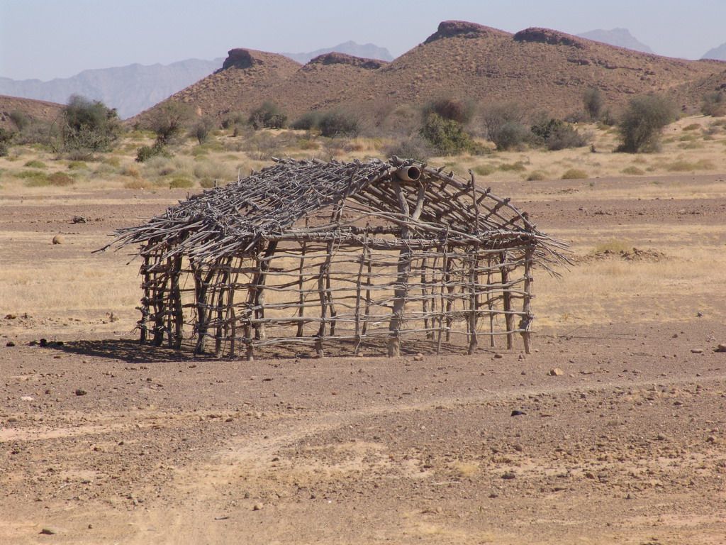 A Hut frame near City of Awaran, in Balochistan, Pakistan.